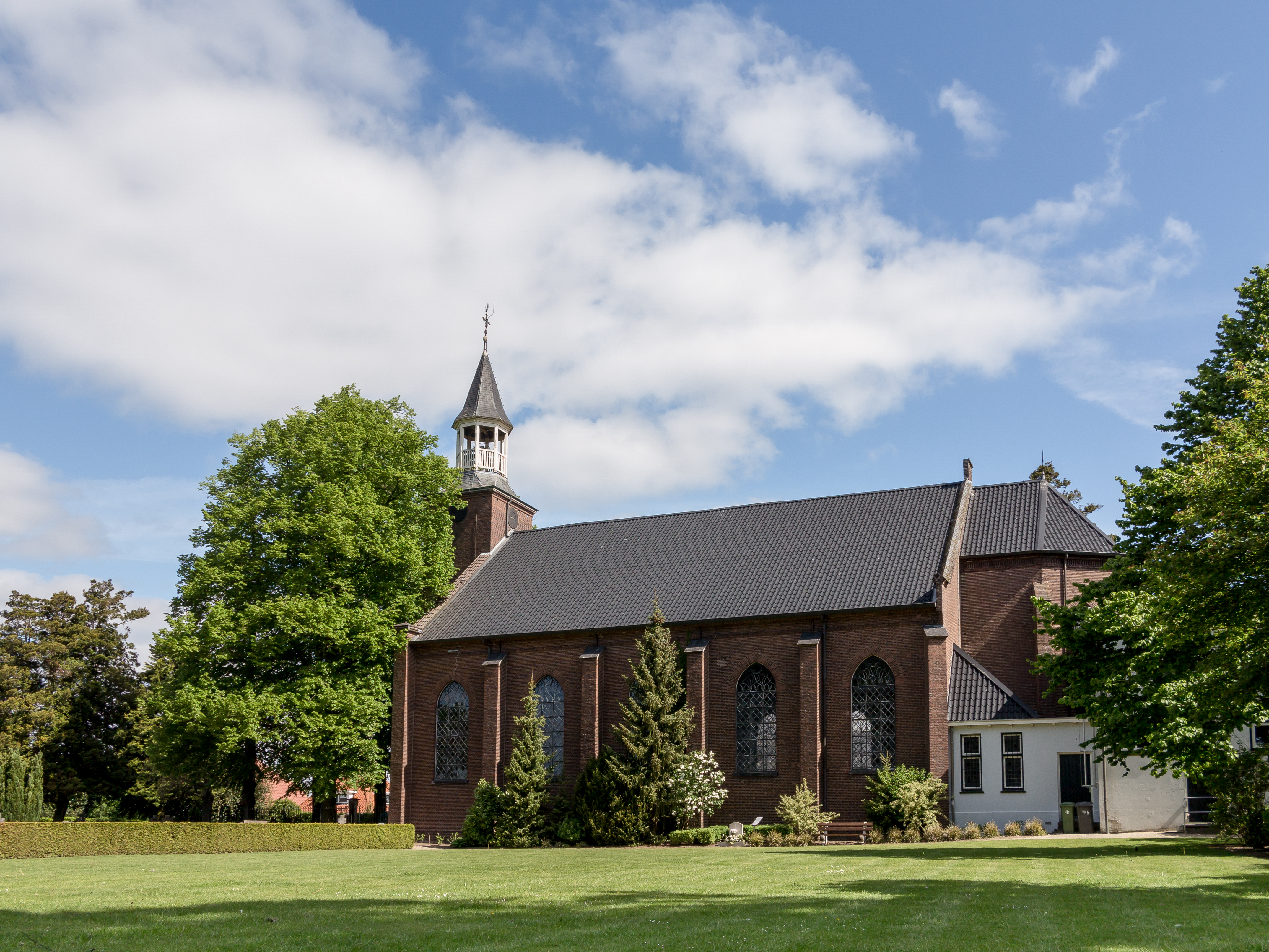 Breedenbroek, catholic church: de Sint-Petrus en Pauluskerk